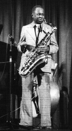 Jazz saxophonist George Kelly in France